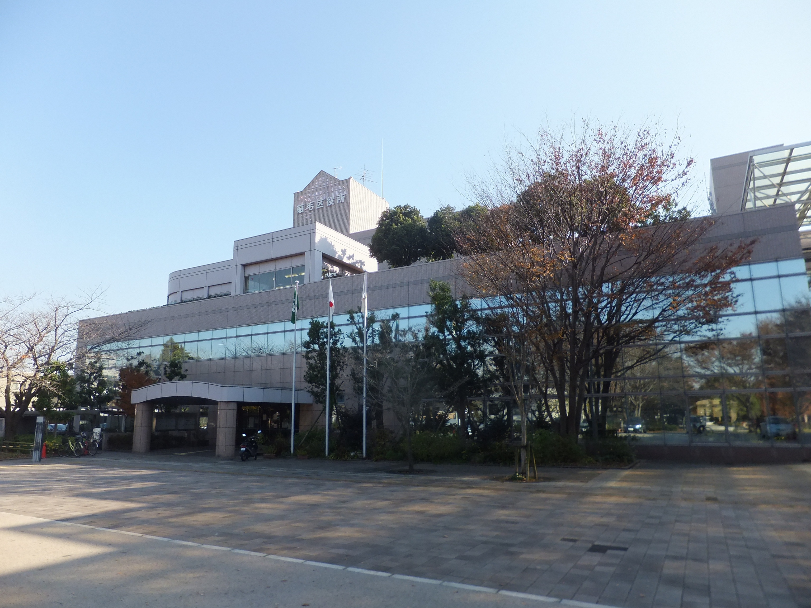 Inague ward office in Chiba city.